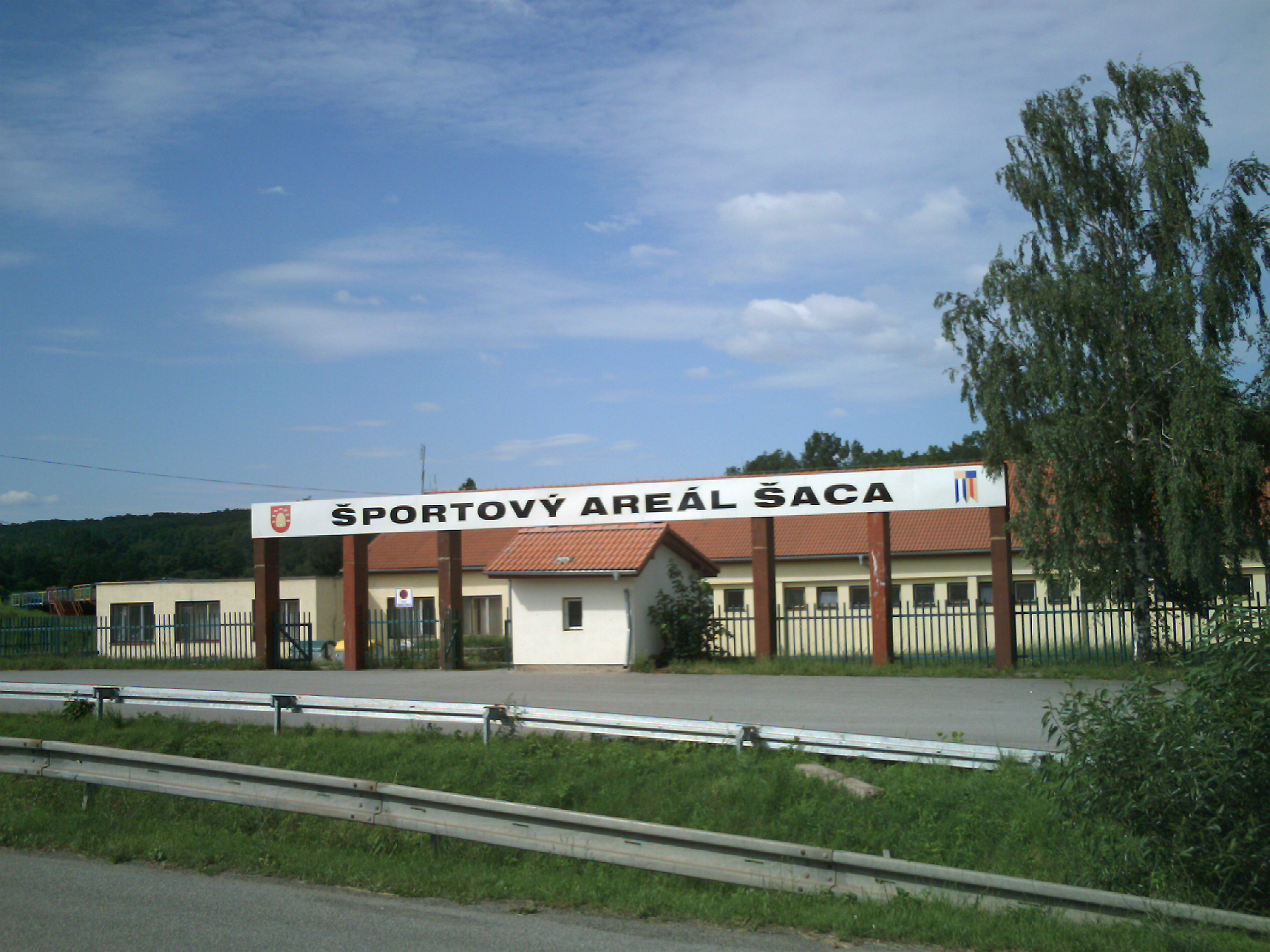 Sports areal in Slovakia, Kosice-Saca